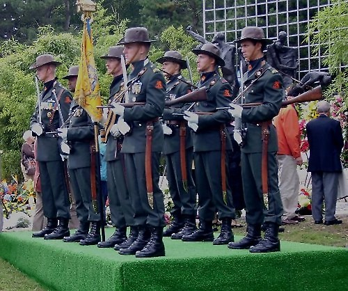 Colour Guard of 11 infantry battalion "van Heutsz"